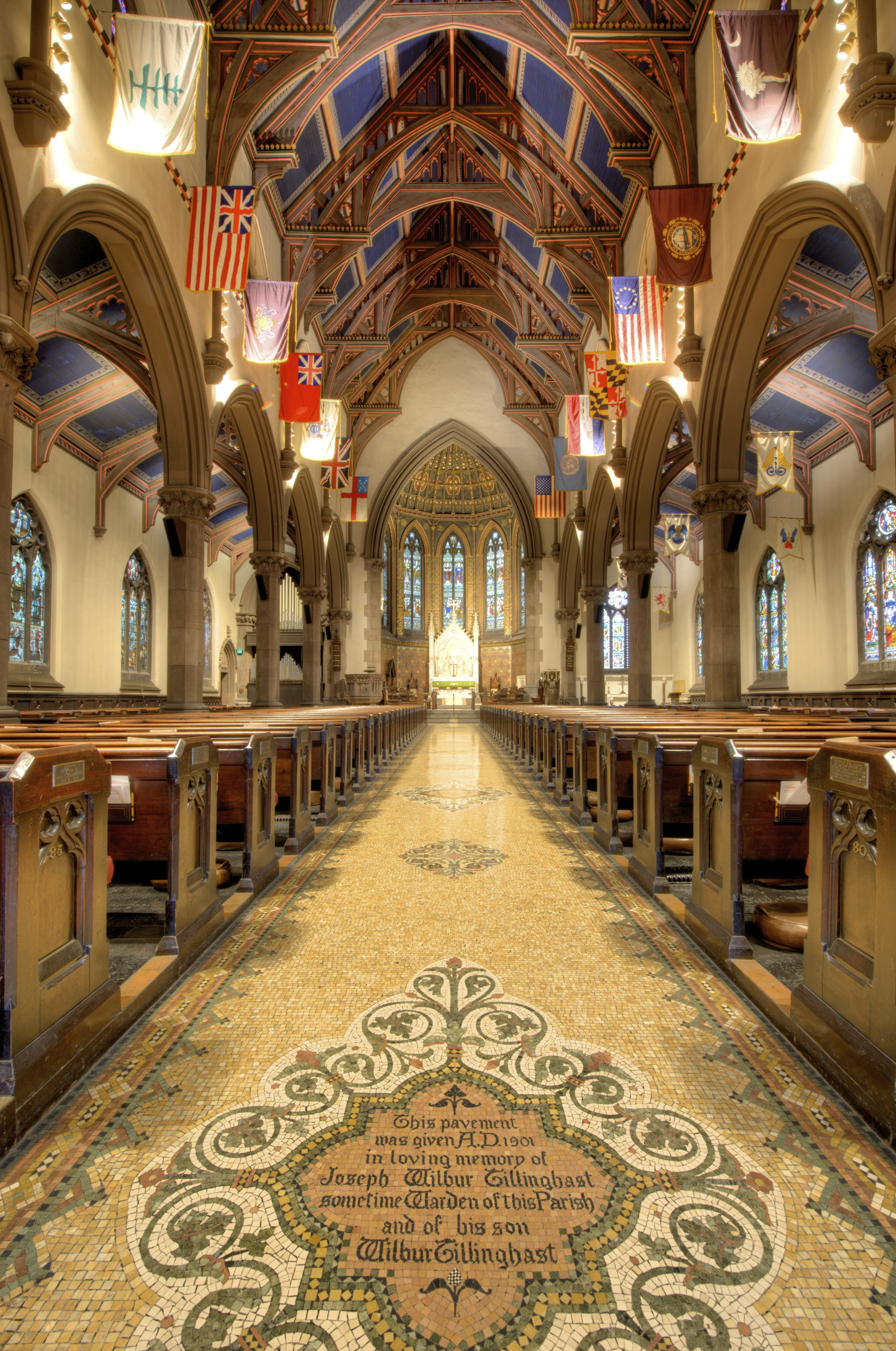 The mosaic flooring was given in 1901 in memory of John Wilbur Tillinghast and his son Wilbur. The pavement was laid by Tretel Bros. and Co. of New York after designs of J.A. Holzer of N.Y. (St. Peter's, Albany)